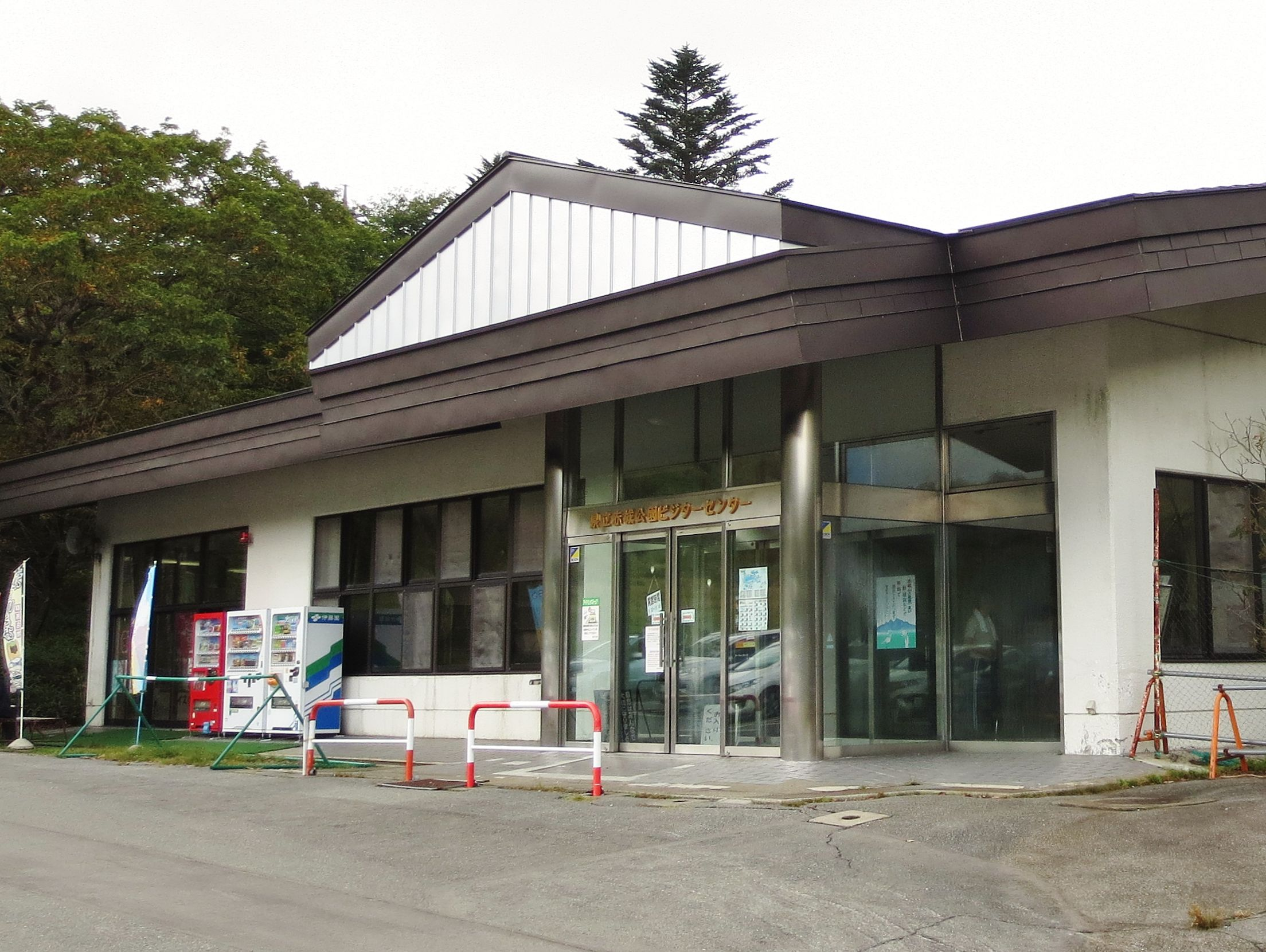 Mount Akagi Visitors Center.